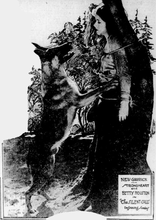 Newspaper advertisement for the American film The Silent Call (1921) with Strongheart the Dog and Kathryn McGuire portraying Betty Houston tied to a tree, overlapping ads for other films removed, on page 4 of the December 3, 1921 Duluth Herald.